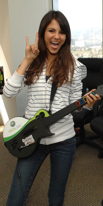 Victoria Justice poses while playing guitar hero